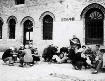 Students reading newspaper, Beifang University